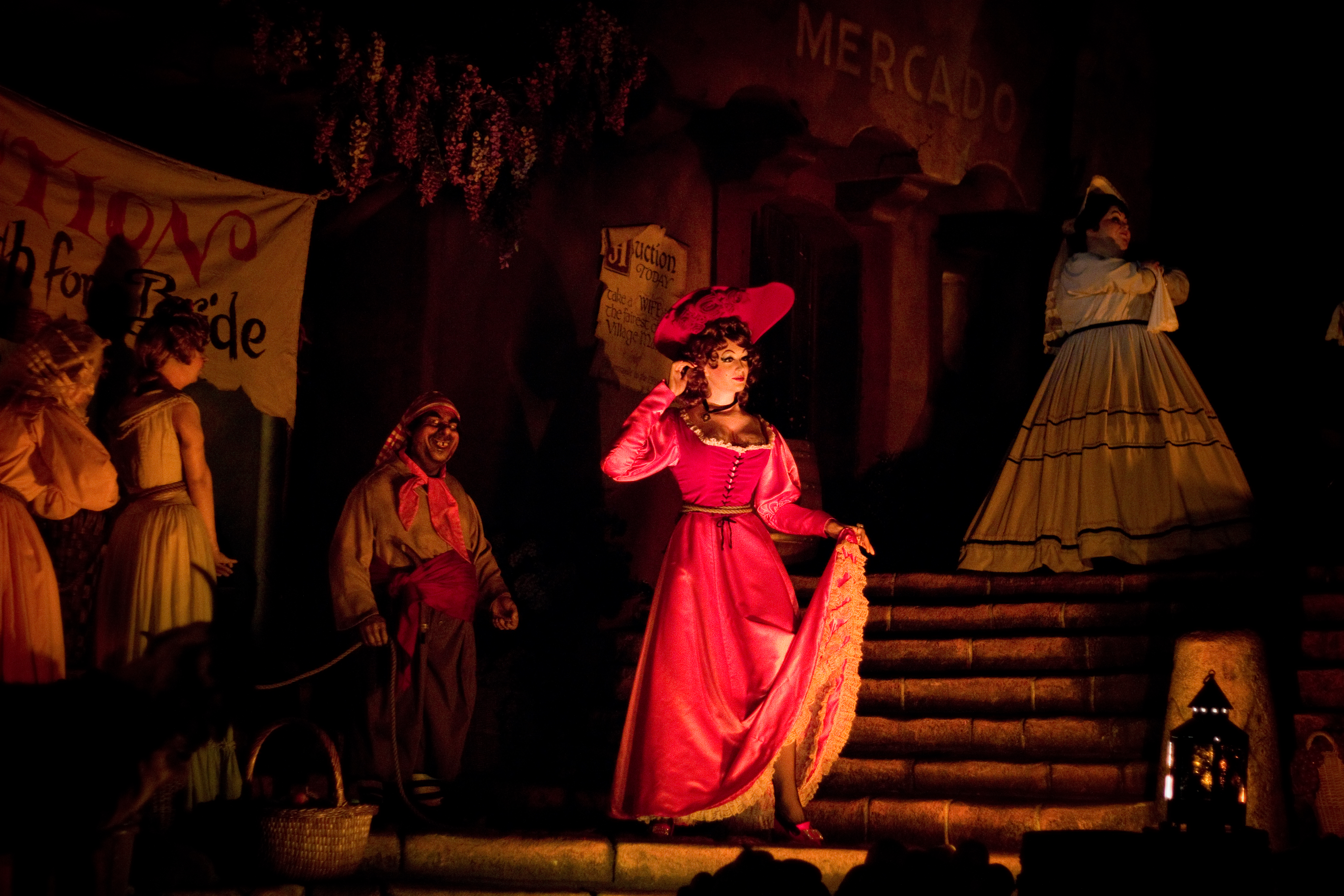 Inside Pirates of the Caribbean in Disneyland.